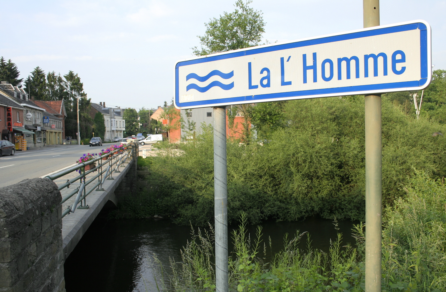 Forrières (Belgium), the new bridge (pont des « Bates ») on the L’Homme river.